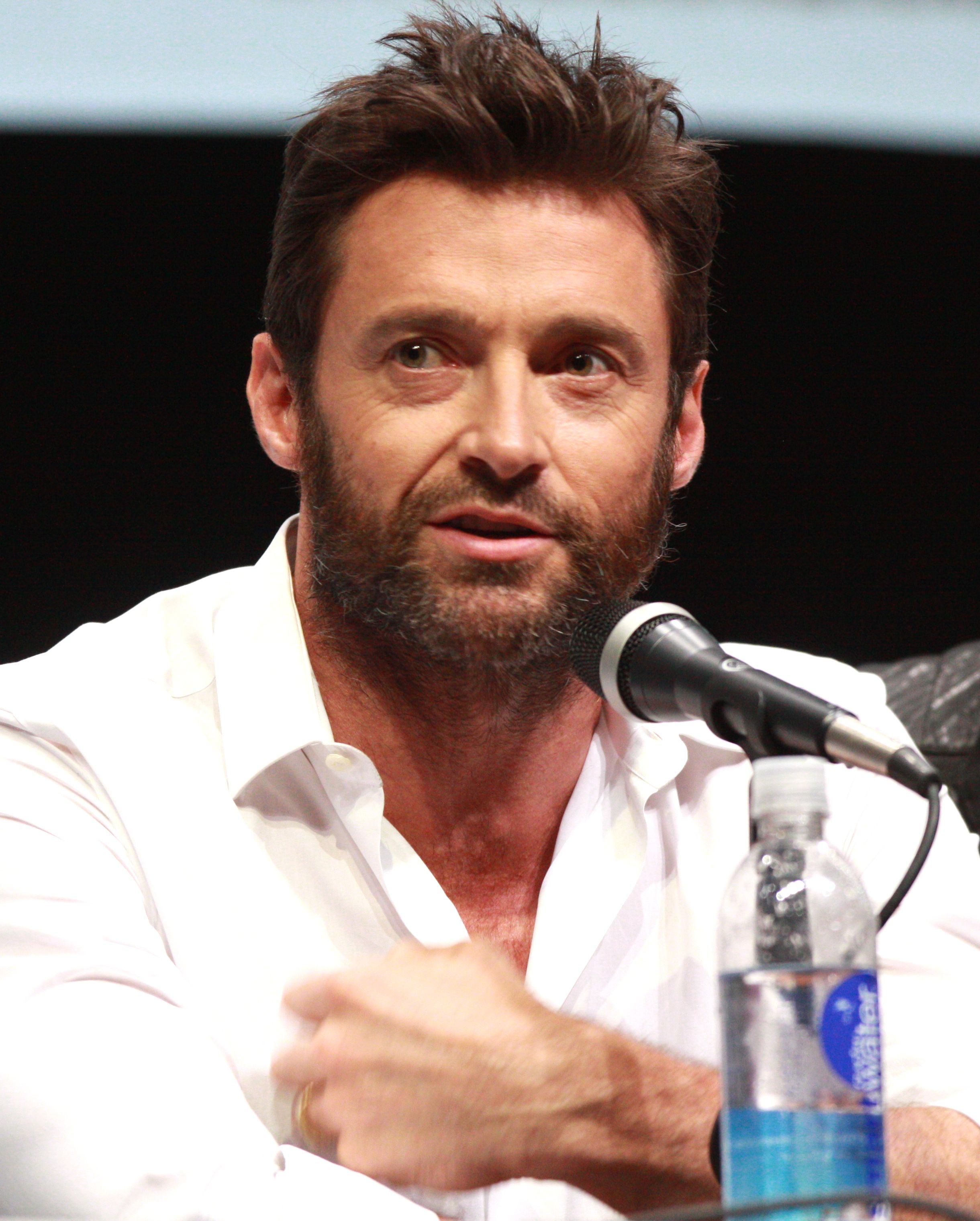 Hugh Jackman at the 2013 San Diego Comic-Con International.